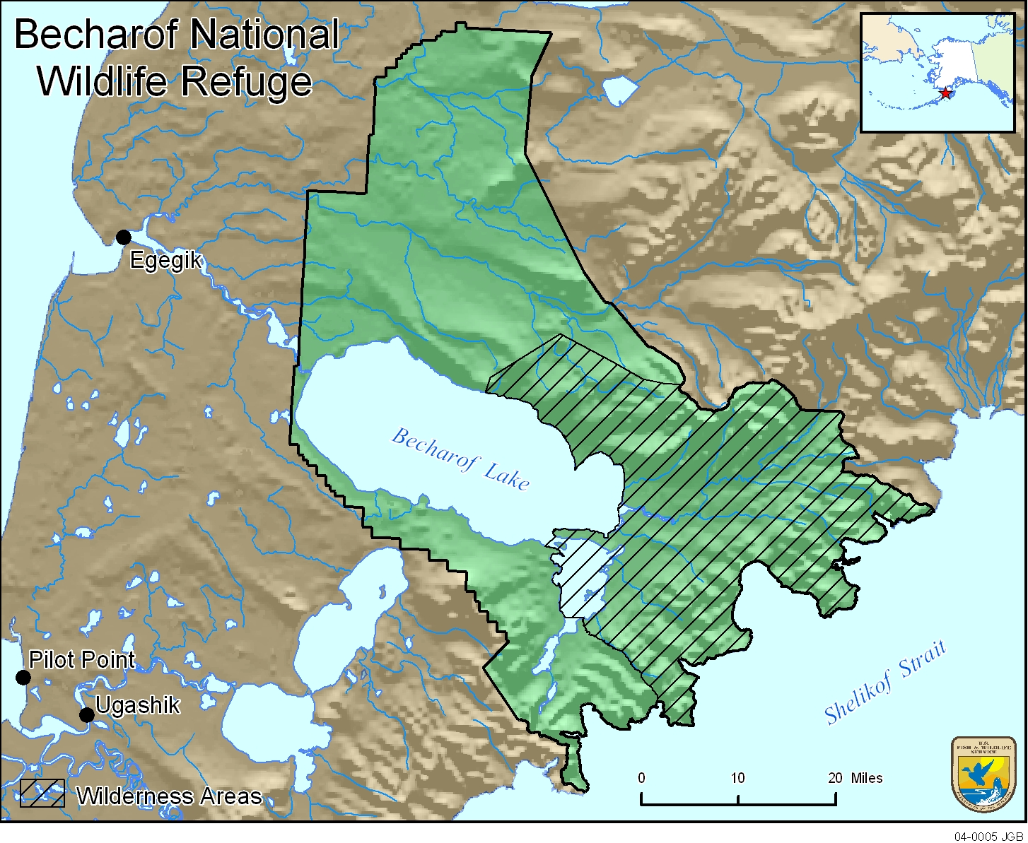 Map of Becharof Wildlife Refuge, Alaska, USA. Stripes indicate boundary of Becharof Wilderness within the Refuge.